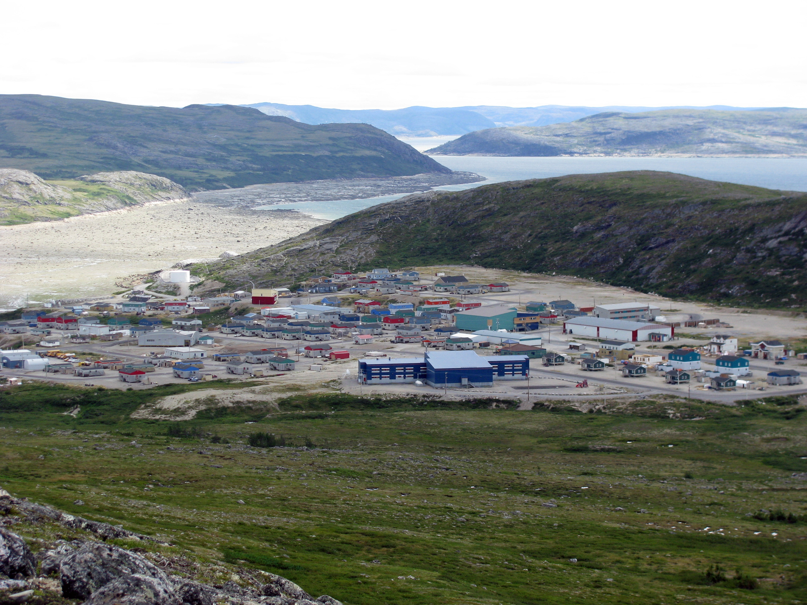 Kangiqsualujjuaq